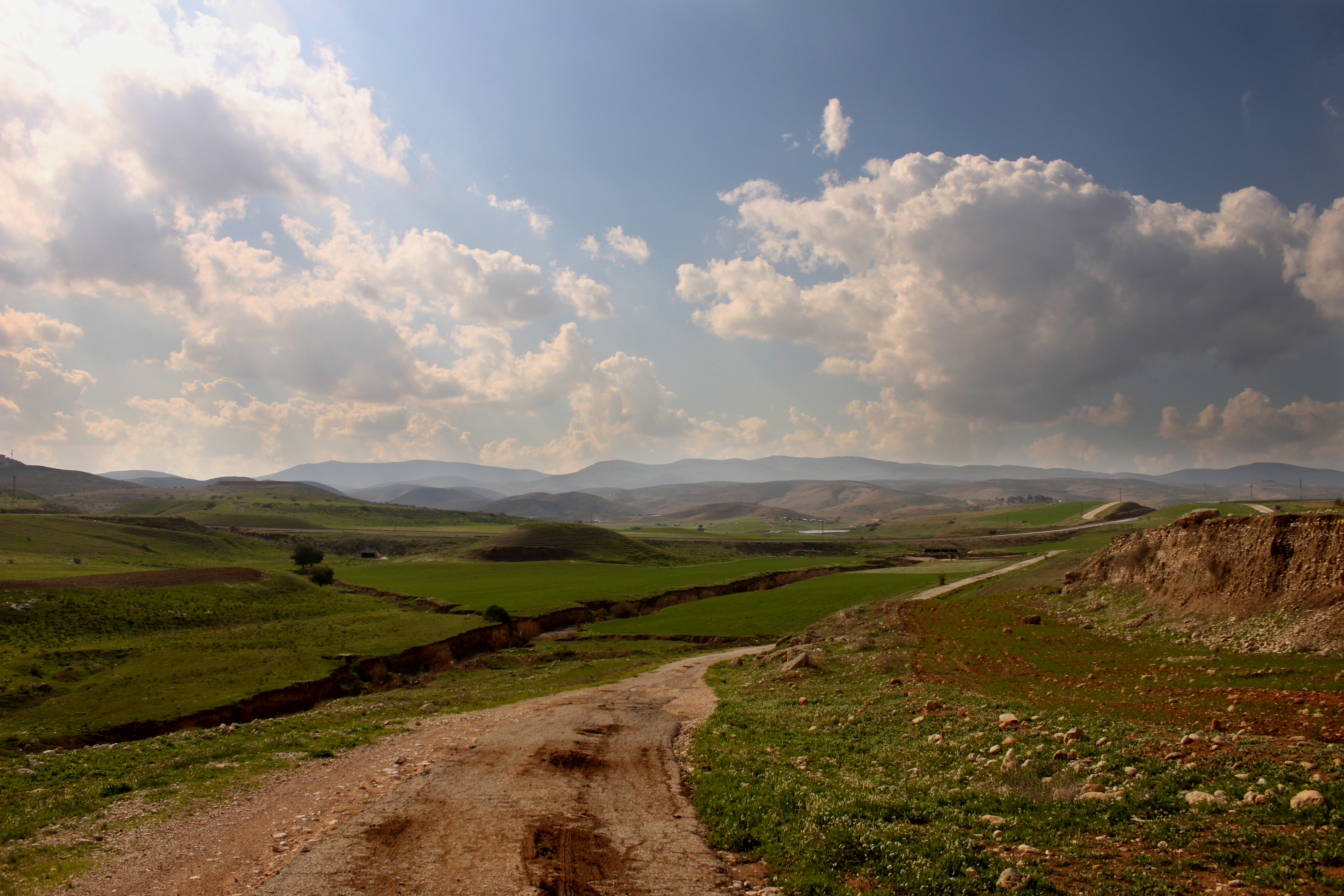 North part of Jordan Valley - March 2011 - ISrael